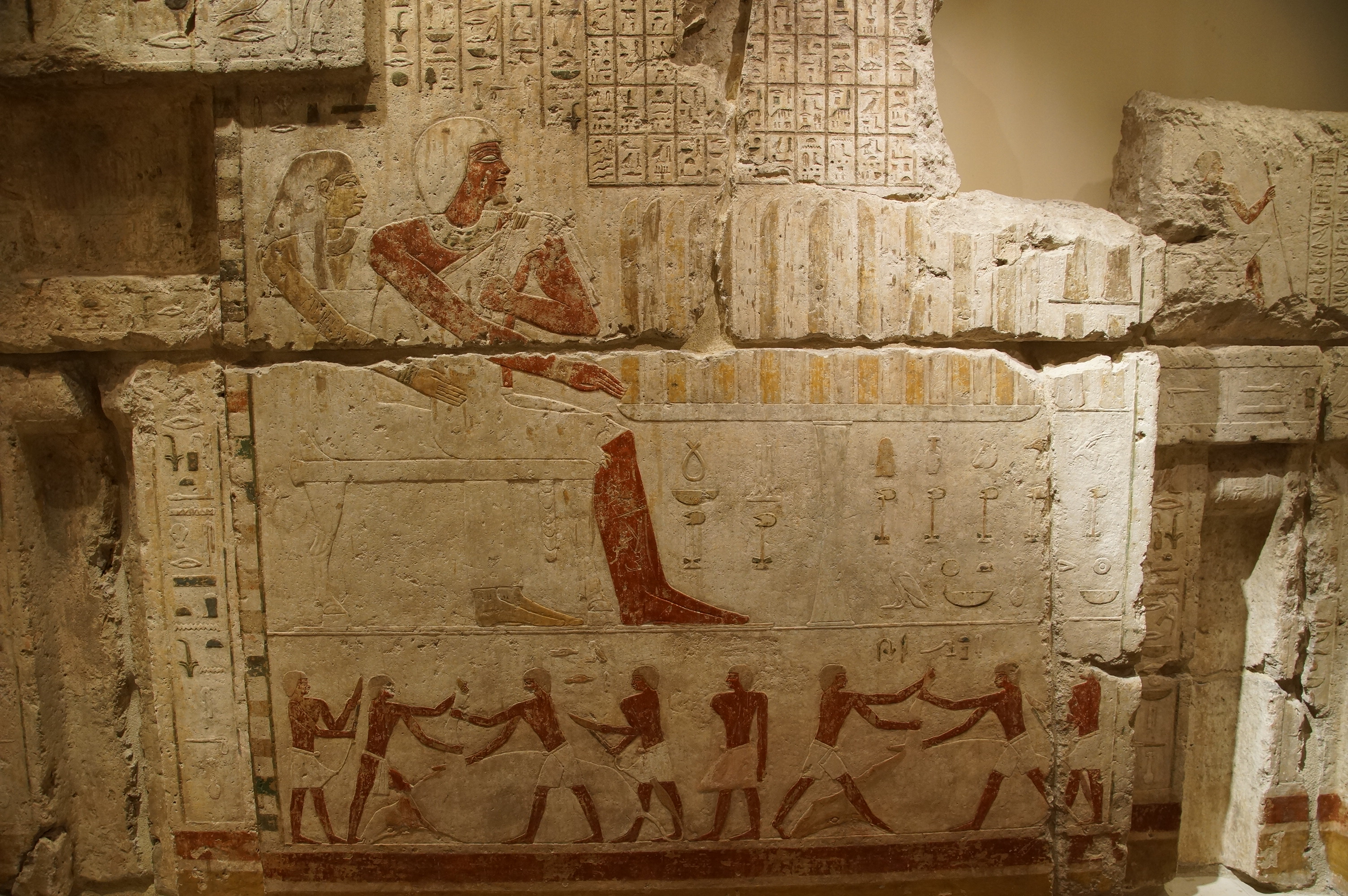 Burial Chamber of Seshemnofer III in the museum of the University of Tübingen (Germany) in the castle of Tübingen.